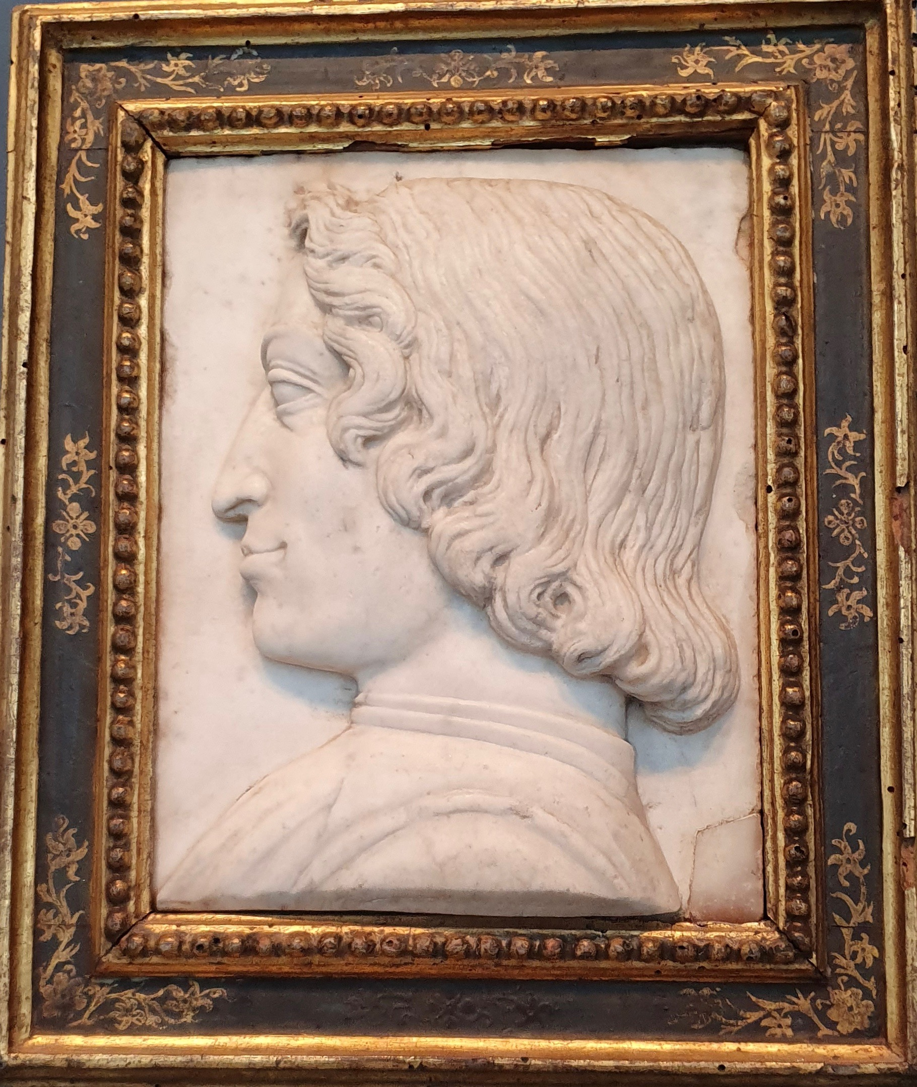 Relief of Giuliano de' Medici c. 1480, Marble,Florentine sculptor